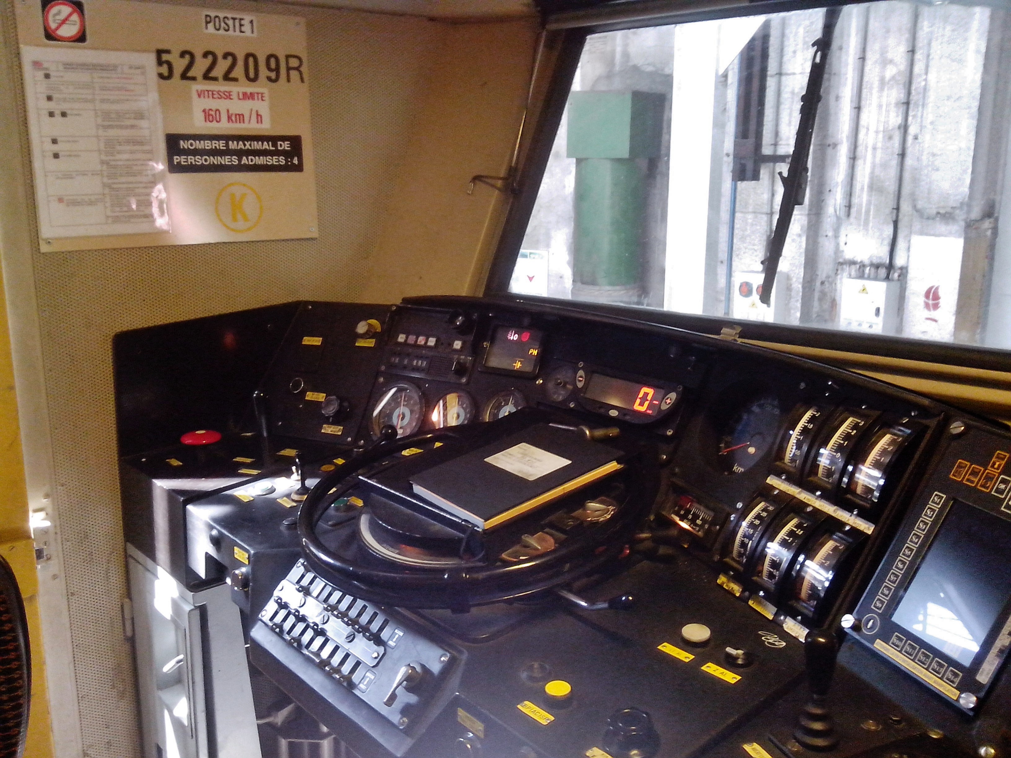 Driving cab of class BB 22209 R.